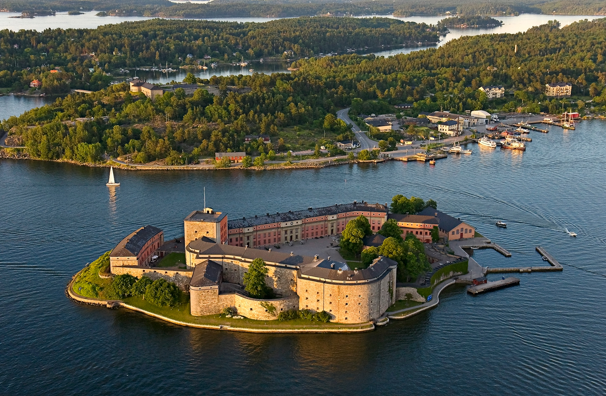 Vaxholms fortress, Vaxholm, Stockholm County.